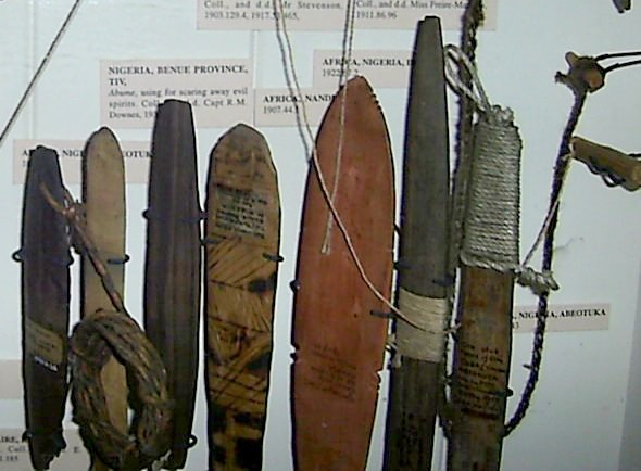 I took this picture in the Pitt Rivers Museum in Oxford and release it under the GFDL.